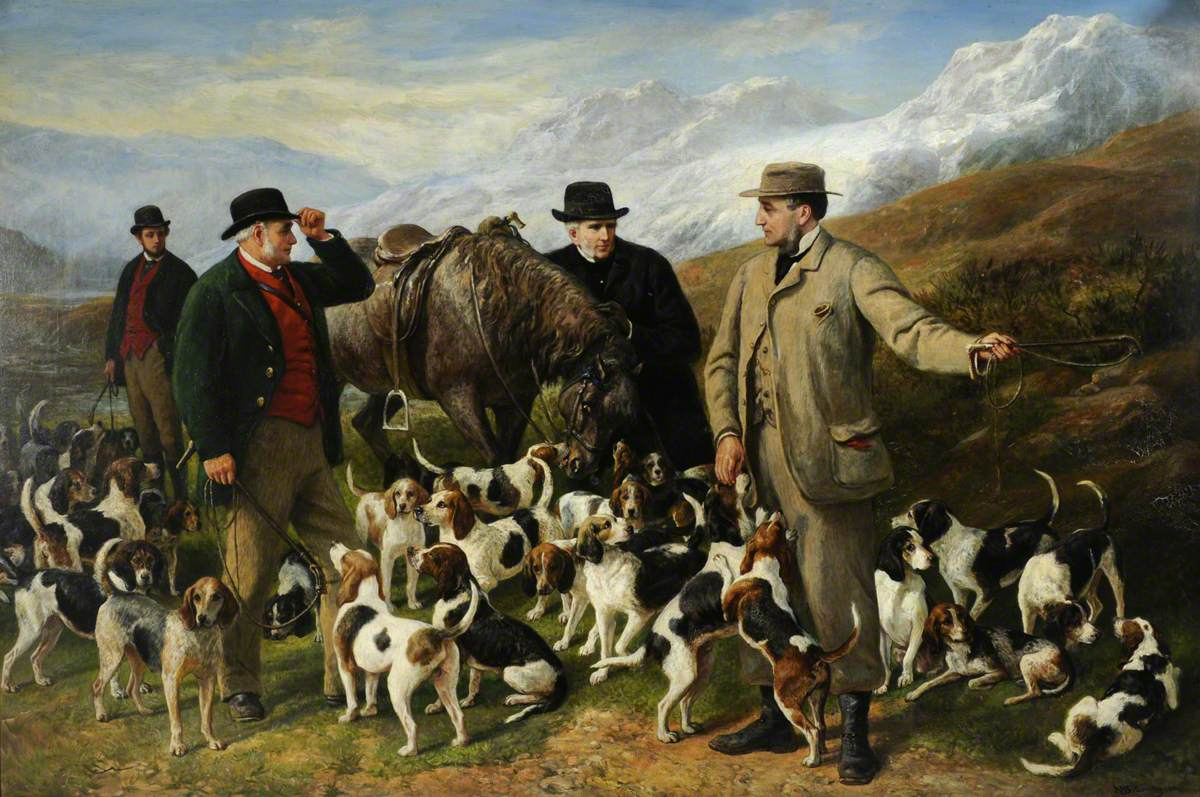 Hunting Scene of Windermere Harriers with George Ridehalgh (1835–1892), as Master